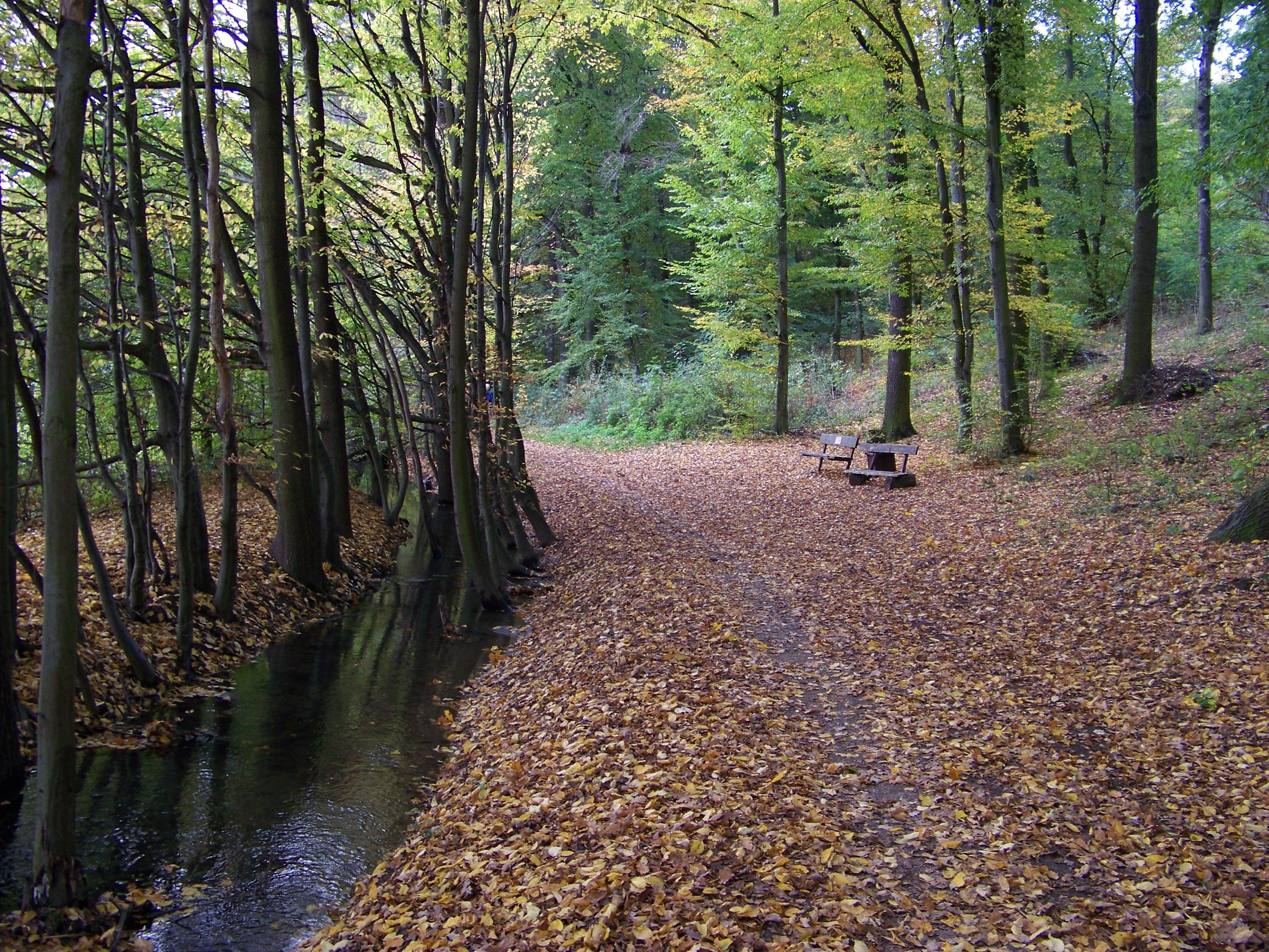 Prague-Hostavice and Kyje, Czech Republic. Svépravice Creek.